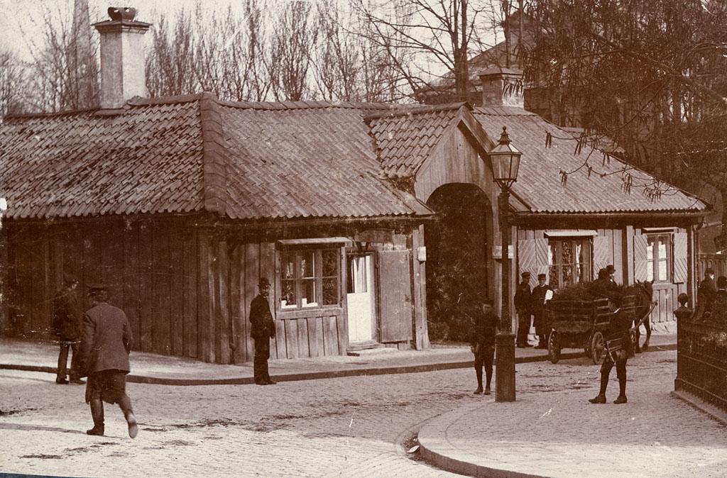 Café "Petissan" at the corner of streets Drottninggatan and Kungstensgatan in the northern part of Stockholm city. The building was moved in 1907 to Skansen open air museum in Stockholm.